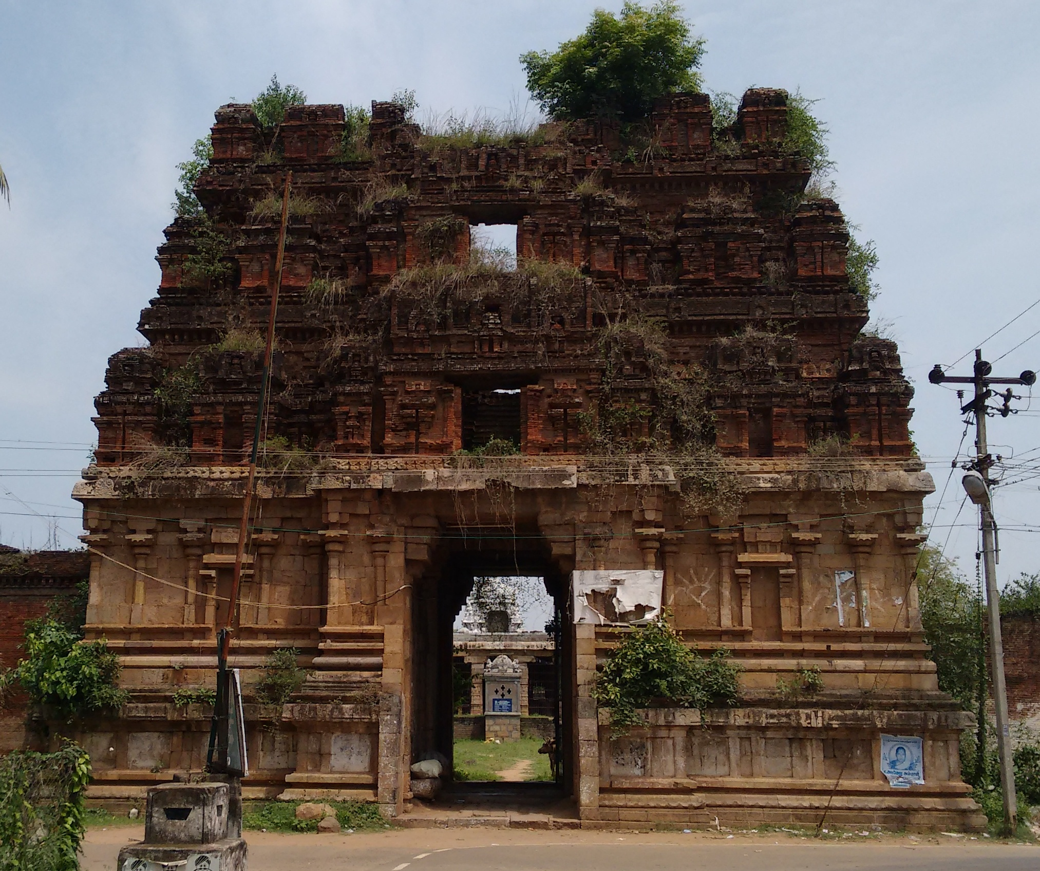 gopinathaperumalkovil near pattisvaram பட்டீஸ்வரம் அருகே கோபிநாதப்பெருமாள்கோயில்